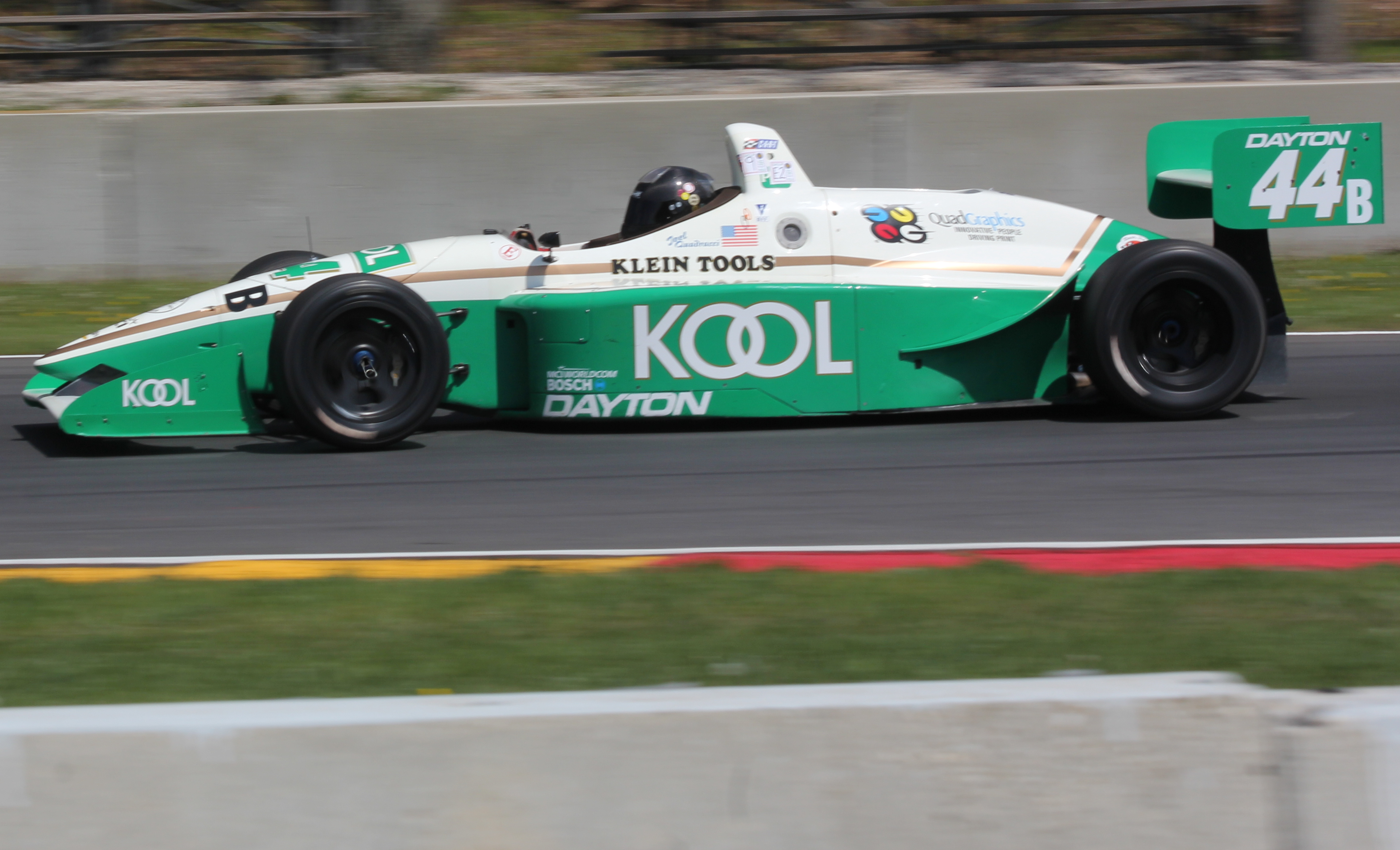 The Team Kool Green Lola T93/20 Indy Lights car at a vintage racing event at Road America in 2016